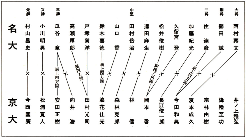 nanateijudo